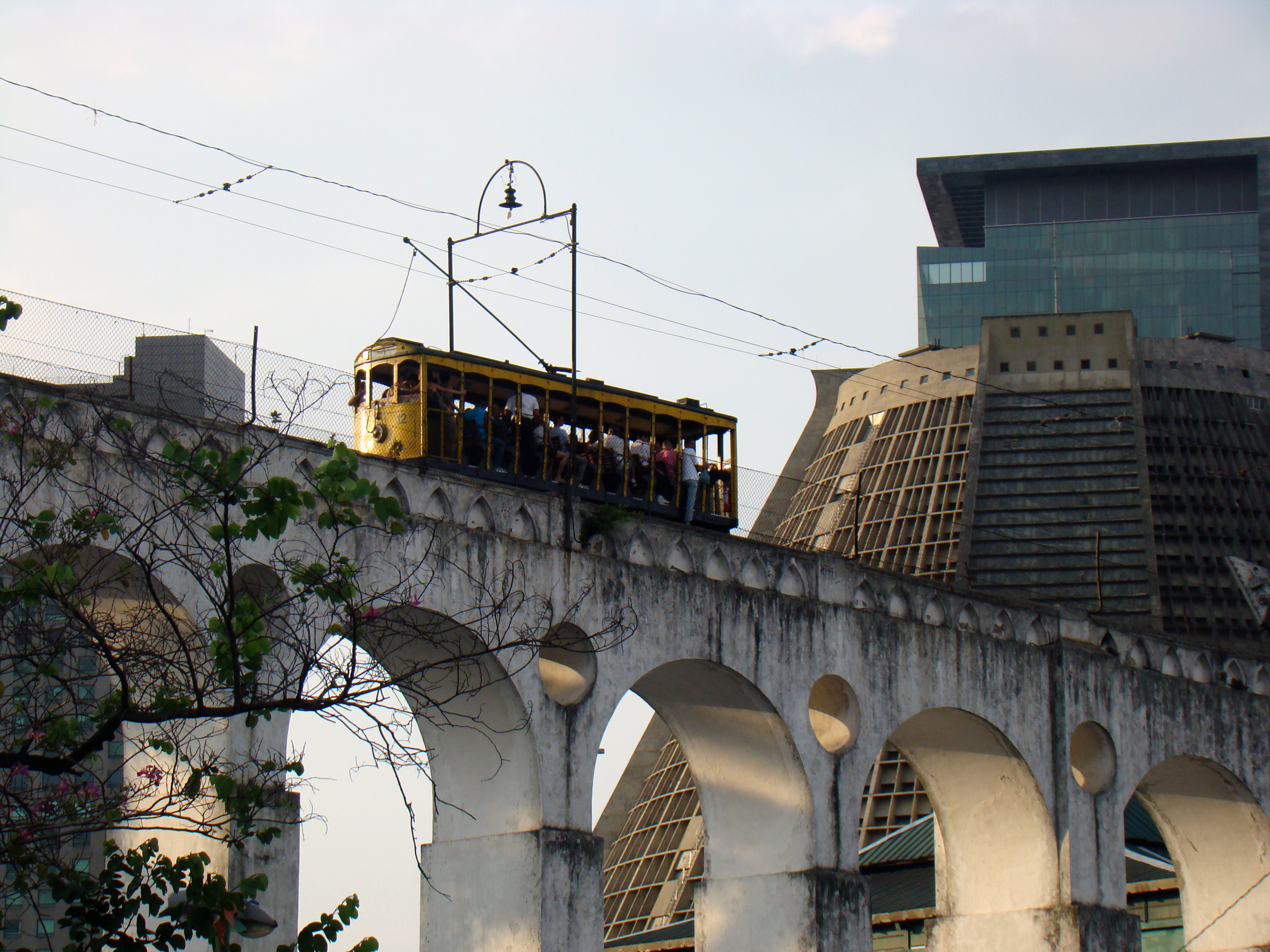 The Carioca Aqueduct (Portuguese: Aqueduto da Carioca) is an aqueduct in the city of Rio de Janeiro, Brazil. The aqueduct was built in the middle of the 18th century to bring fresh water from the Carioca river to the population of the city. It is an impressive example of colonial architecture and engineering. The Carioca Aqueduct is located in the centre of the city, in the Lapa neighbourhood, and is frequently called Arcos da Lapa (Lapa Arches) by Brazilian people. Since the end of the 19th century the aqueduct serves as a bridge for a popular tram that connects the city centre with the Santa Teresa neighbourhood uphill.